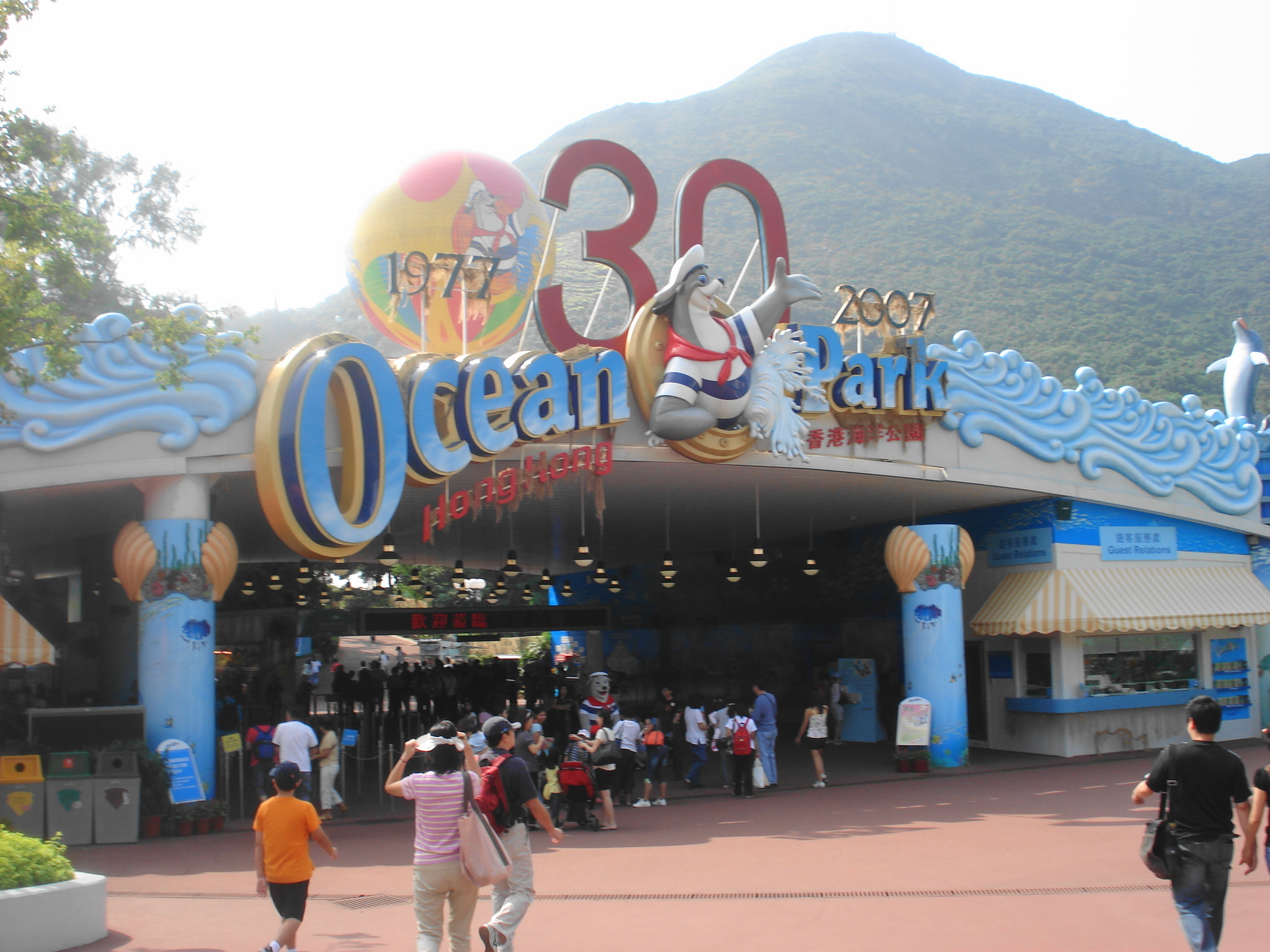 The entrance of Ocean Park, Hong Kong, at its 30th anniversary